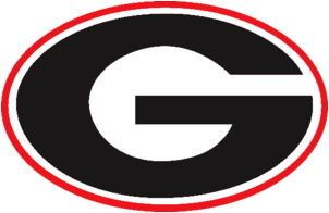 Athletics logo for the University of Georgia.